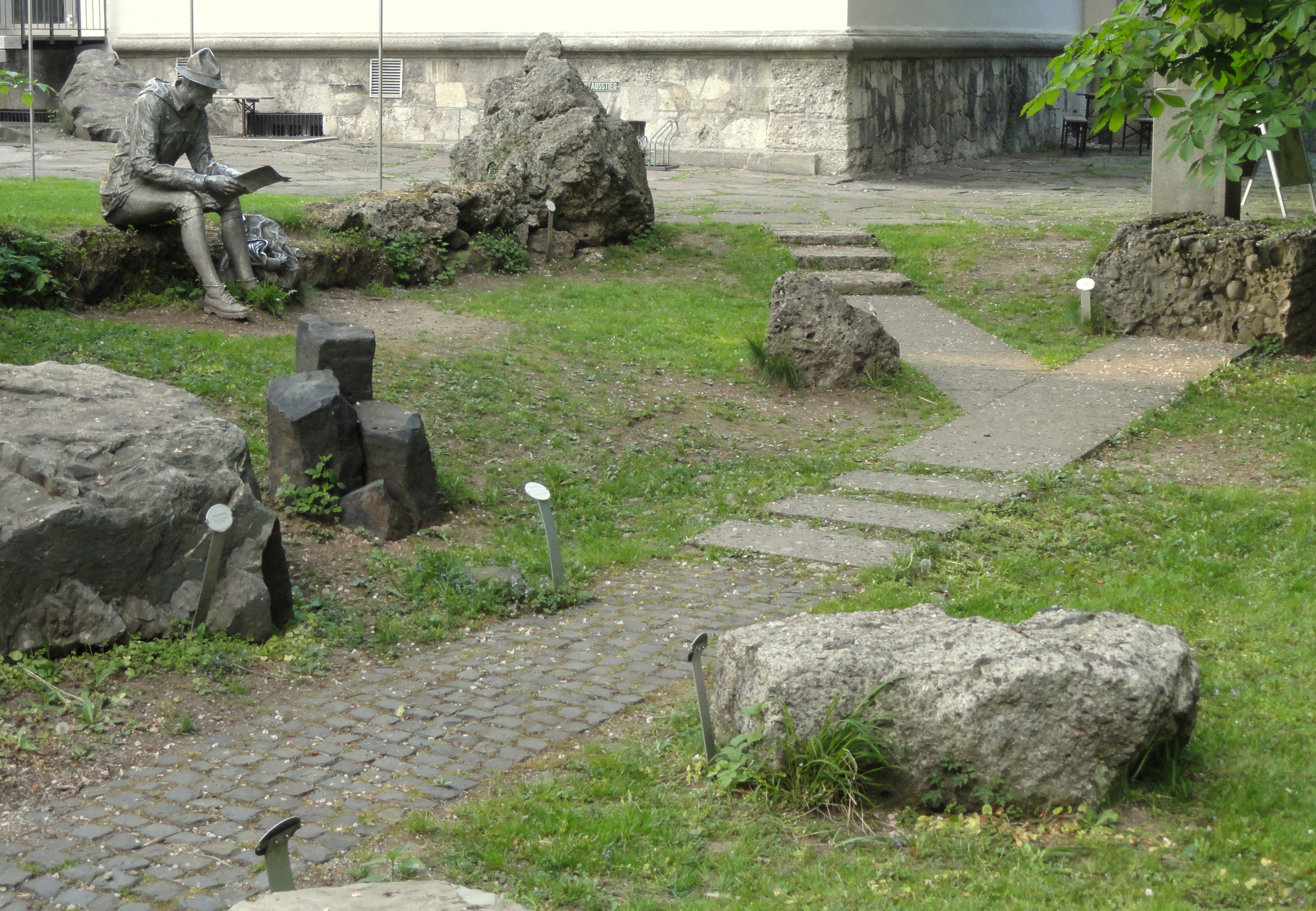 Alpines Museum, Praterinsel 5, Munich, Germany.